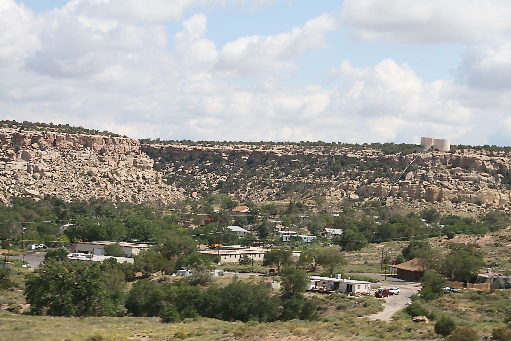 Keams Canyon, as seen from the Arizona State Route 264, looking east. Located in Navajo County, northeastern Arizona.